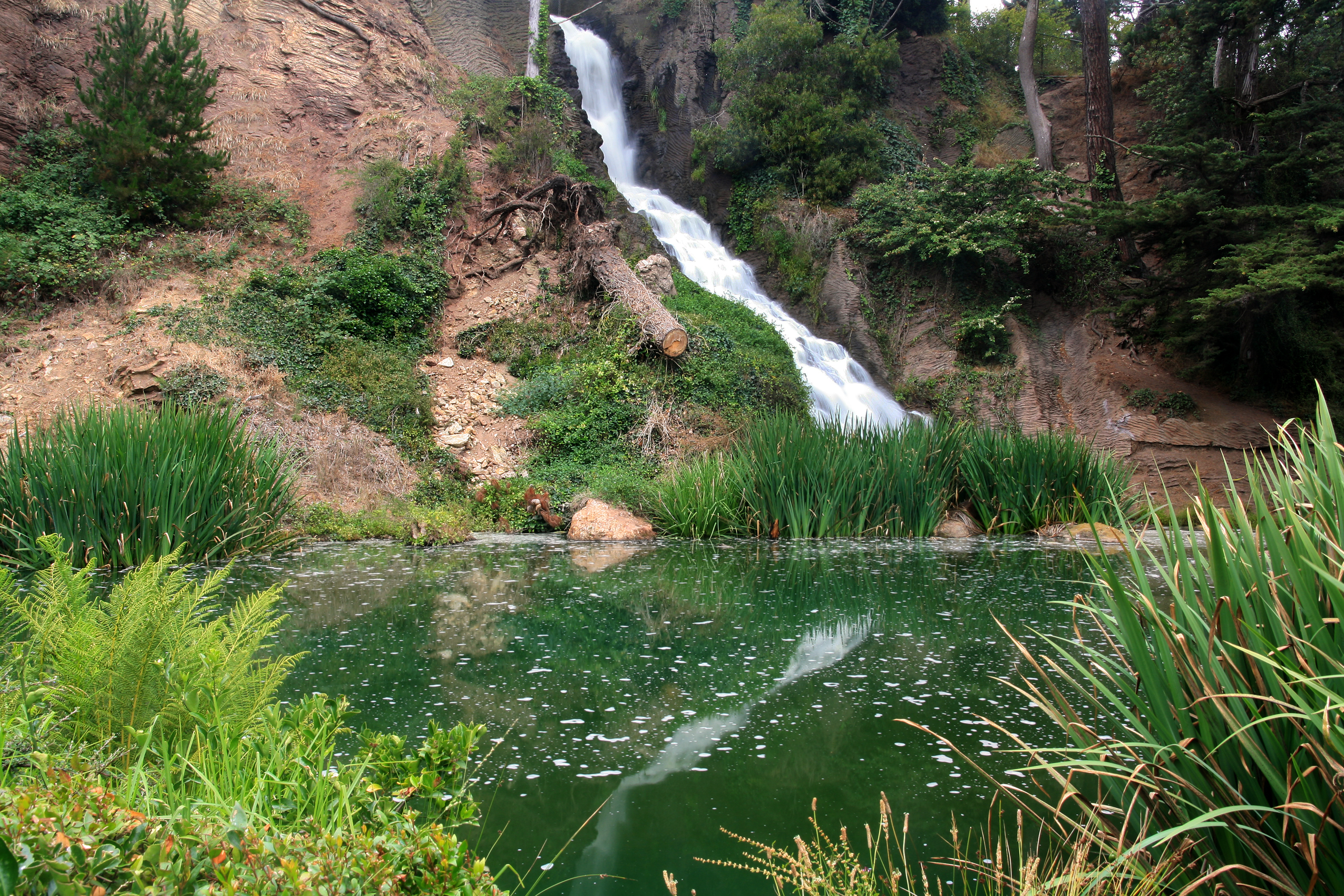 Rainbow Falls with reflection in Golden Gate Park